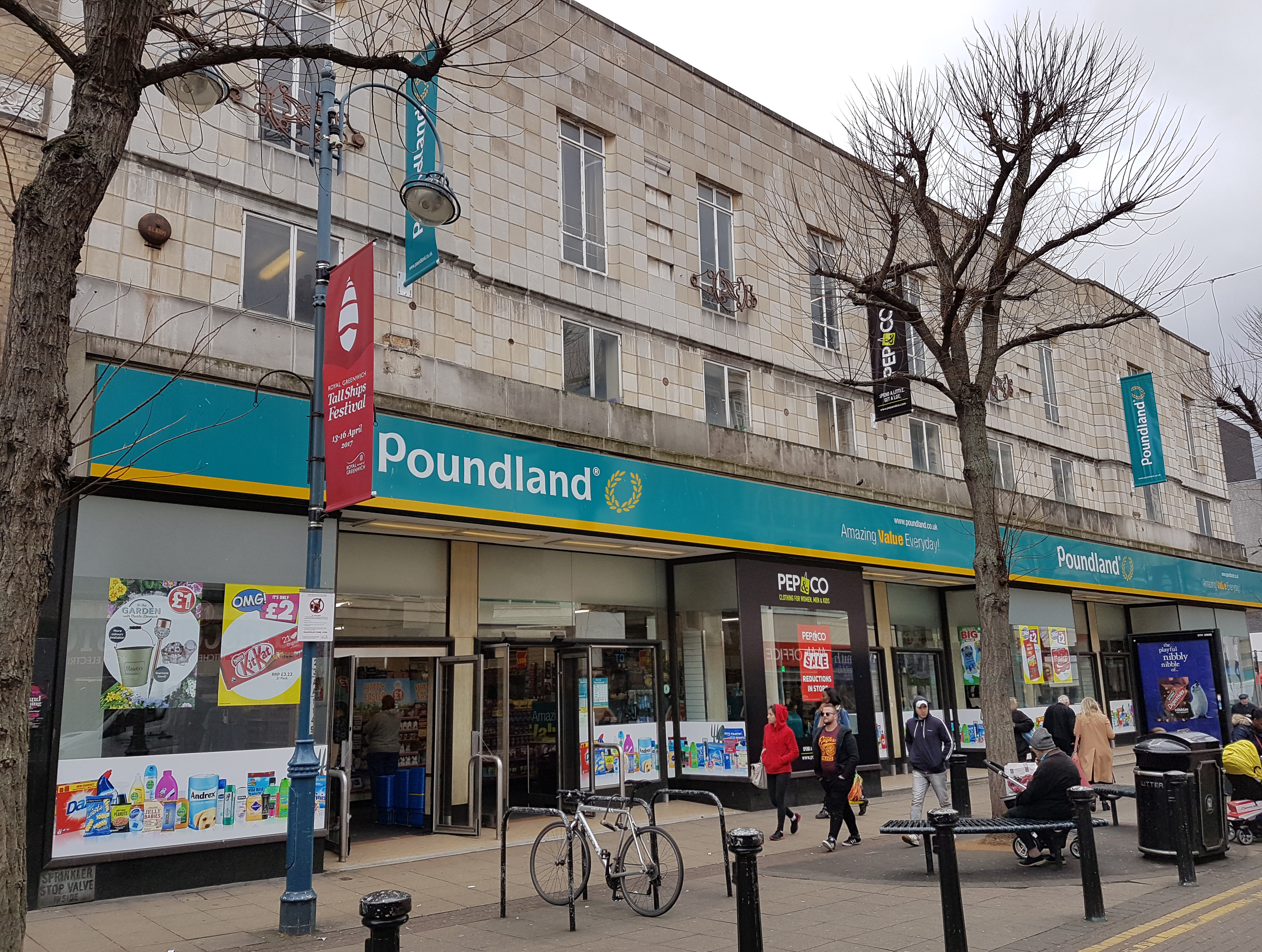 View of the former Marks & Spencer department store, now a Poundland store, in Powis Street in Woolwich, South East London, UK.